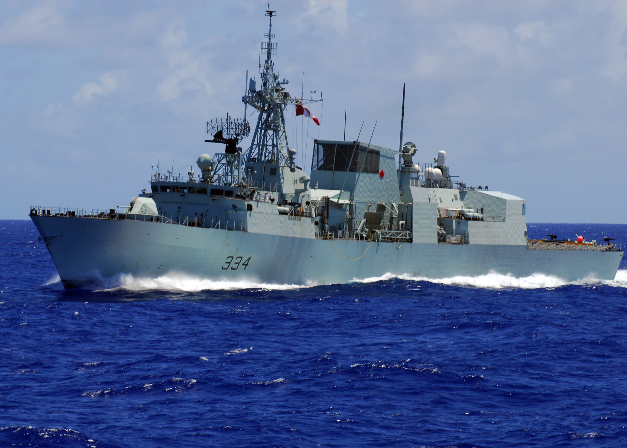 The Canadian Navy ship HMCS Regina (FFH 334) sails off the starboard side of aircraft carrier USS Kitty Hawk (CV 63). Kitty Hawk is returning to the United States for decommissioning after 47 years of service, 10 of which have been in Japan and will be replaced by the aircraft carrier USS George Washington (CVN 73) this summer.